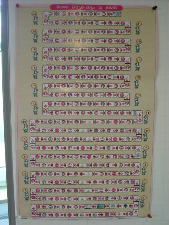 Ladder of Learning